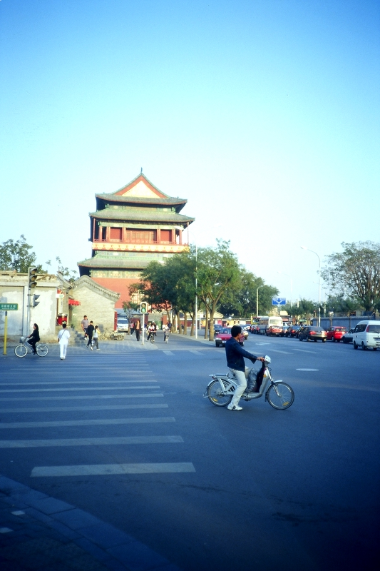 The Drum Tower, Beijing